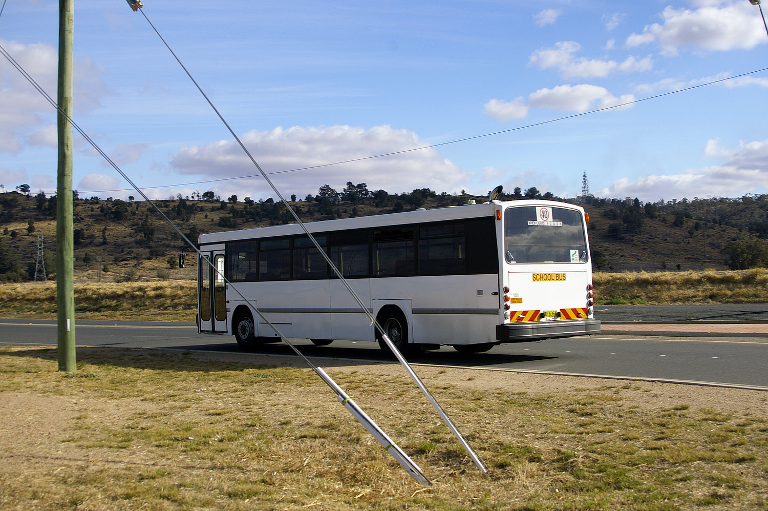 Ansair bodied Renault PR100.2 (MO 6364) which is a former. ACTION bus.